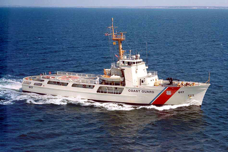 The 210-ft. U.S. Coast Guard VIGILANT (WMEC-617), based at New Bedford, Mass., was the third completed in the new series of 210-ft. class medium endurnace [sic] cutters on which construction began in 1963. Built at Todd Shipyard, Houston, Texas, the VIGILANT was commissioned on October 3, 1964. Her duties are search and rescue and law enforcement